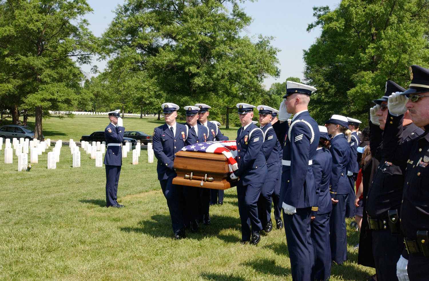 ARLINGTON NATIONAL CEMETERY, Va. (MAY 7, 2004) --- Pall bearers carry the casket of DC3 Nathan Bruckenthal during his interment ceremony. Bruckenthal was the first Coast Guard casualty in Operation Iraqi Freedom. USCG photo by PA2 Fa'iq El-Amin.